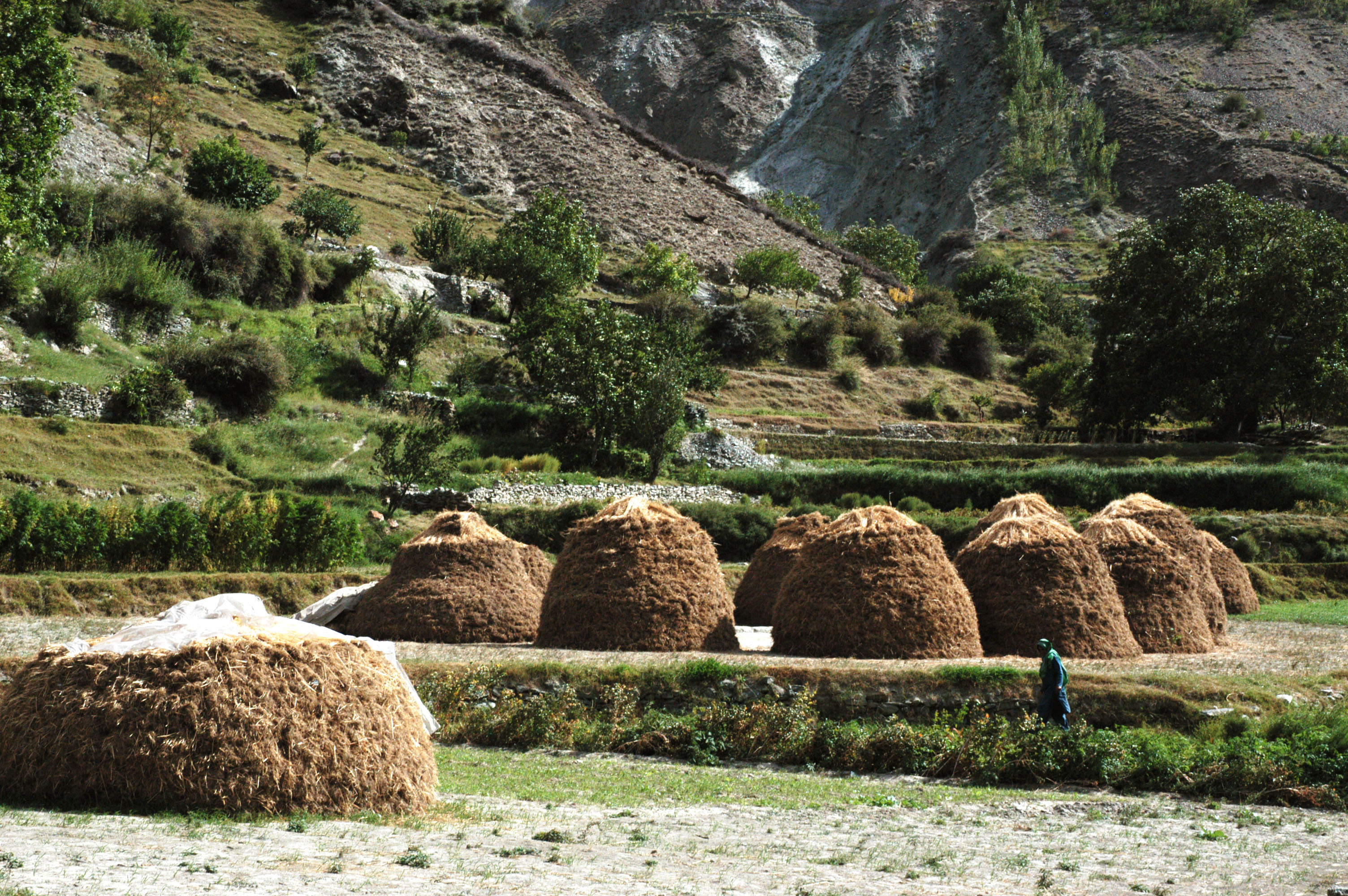 Wheat harvest, Chirah, Bagrote Valley, Gilgit Baltistan, Pakistan.